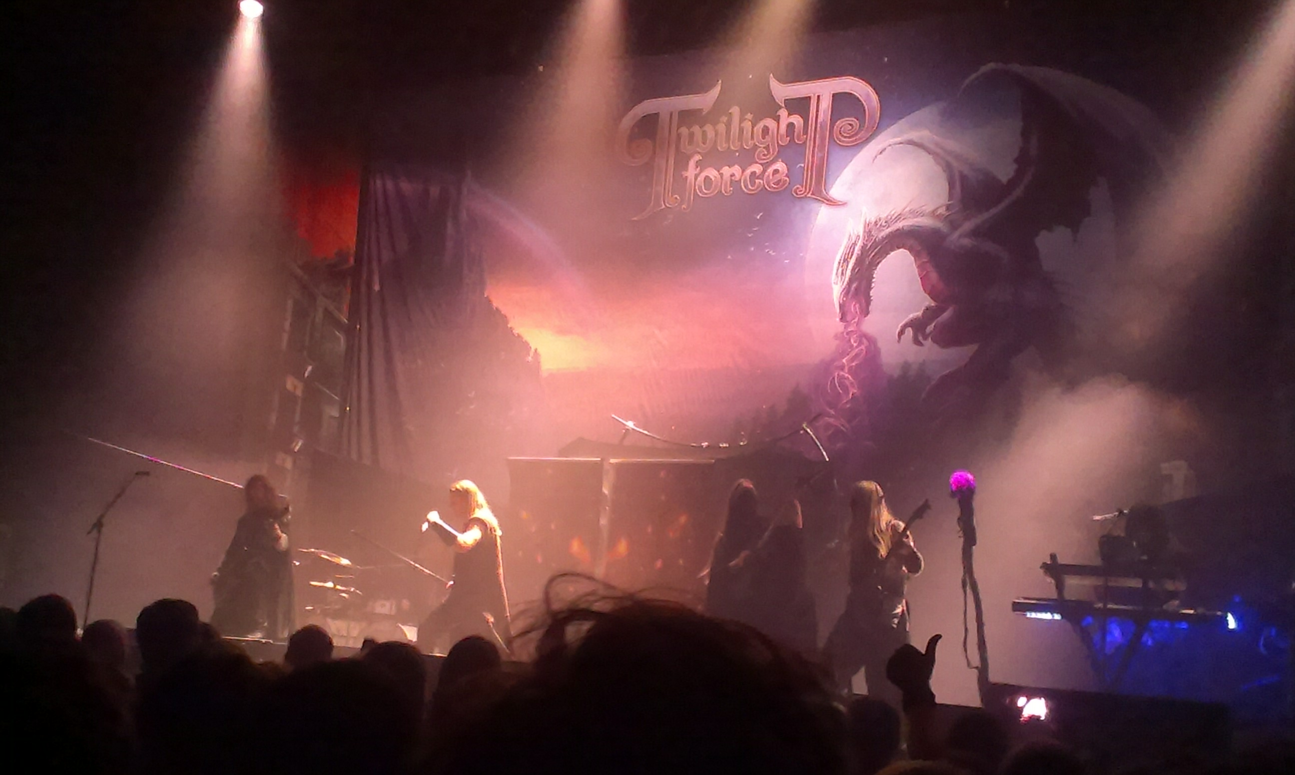 Twilight Force, Prague, 4. 3. 2017